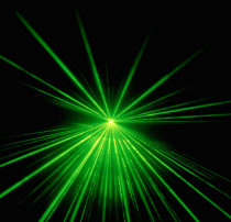 Laser Diffraction - CILAS